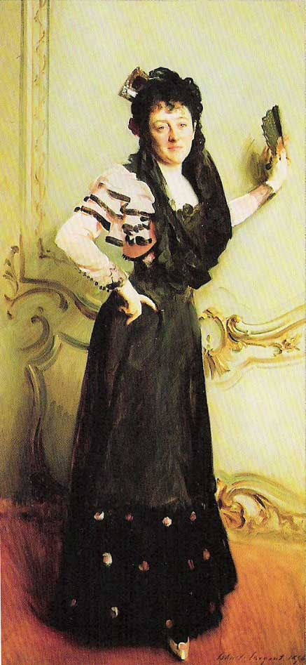 Mrs. Walter Bacon (Virginia Purdy Barker) John Singer Sargent -- American painter 1896 The Bltmore House, Asheville, North Carolina Oil on canvas 207.3 x 97.2 cm (81 5/8/ x 38 1/4/ in.) Inscribed LR John S Sargent 1896 Jpg: Todd